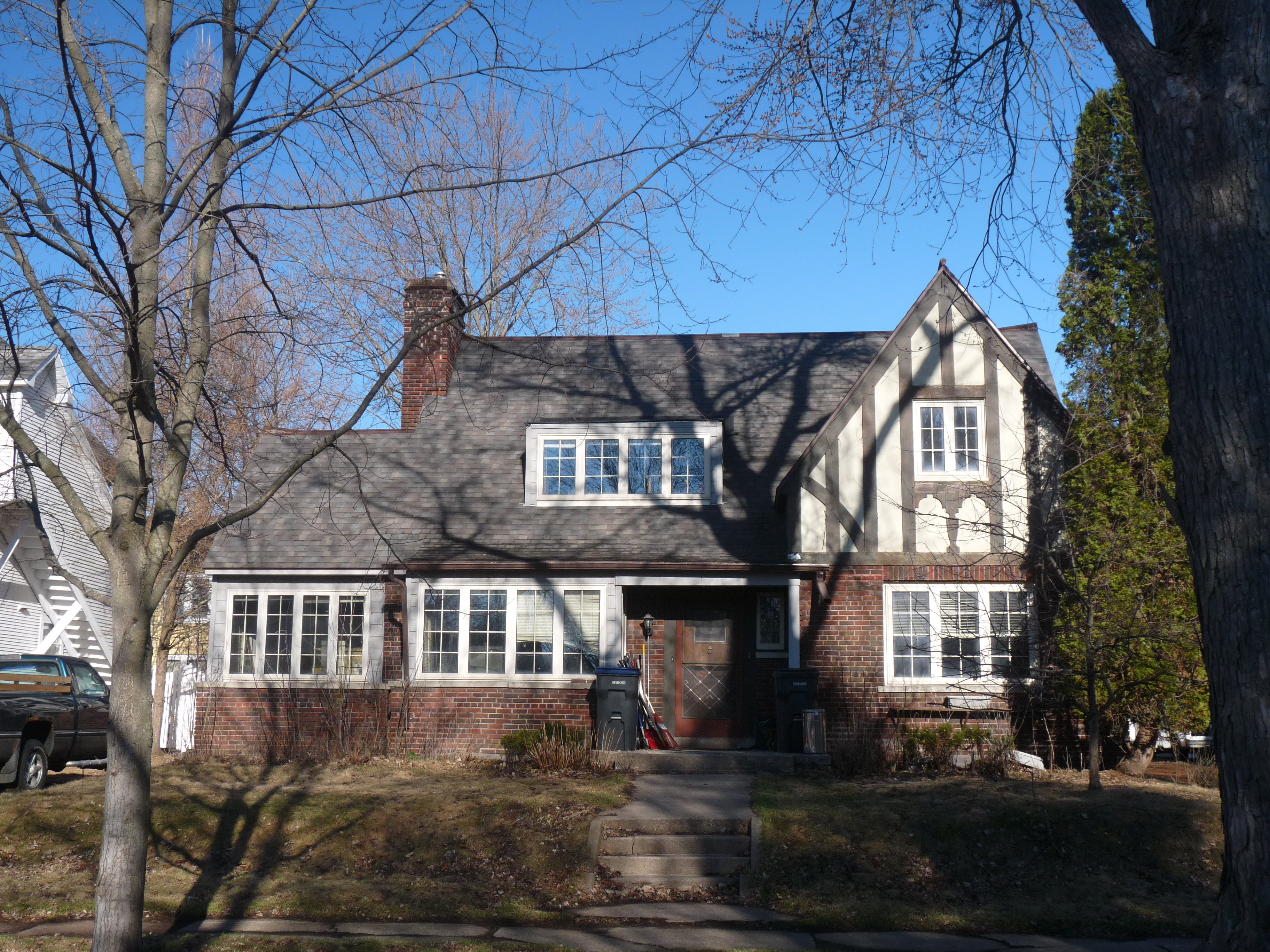 The Wilson house in the Pleasant Hill district in Marshfield Wisconsin is a Tudor Revival-styled home built in 1926 for a Presbyterian minister.